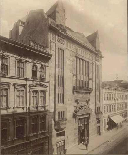 Former entrance of the Hungaria Bath